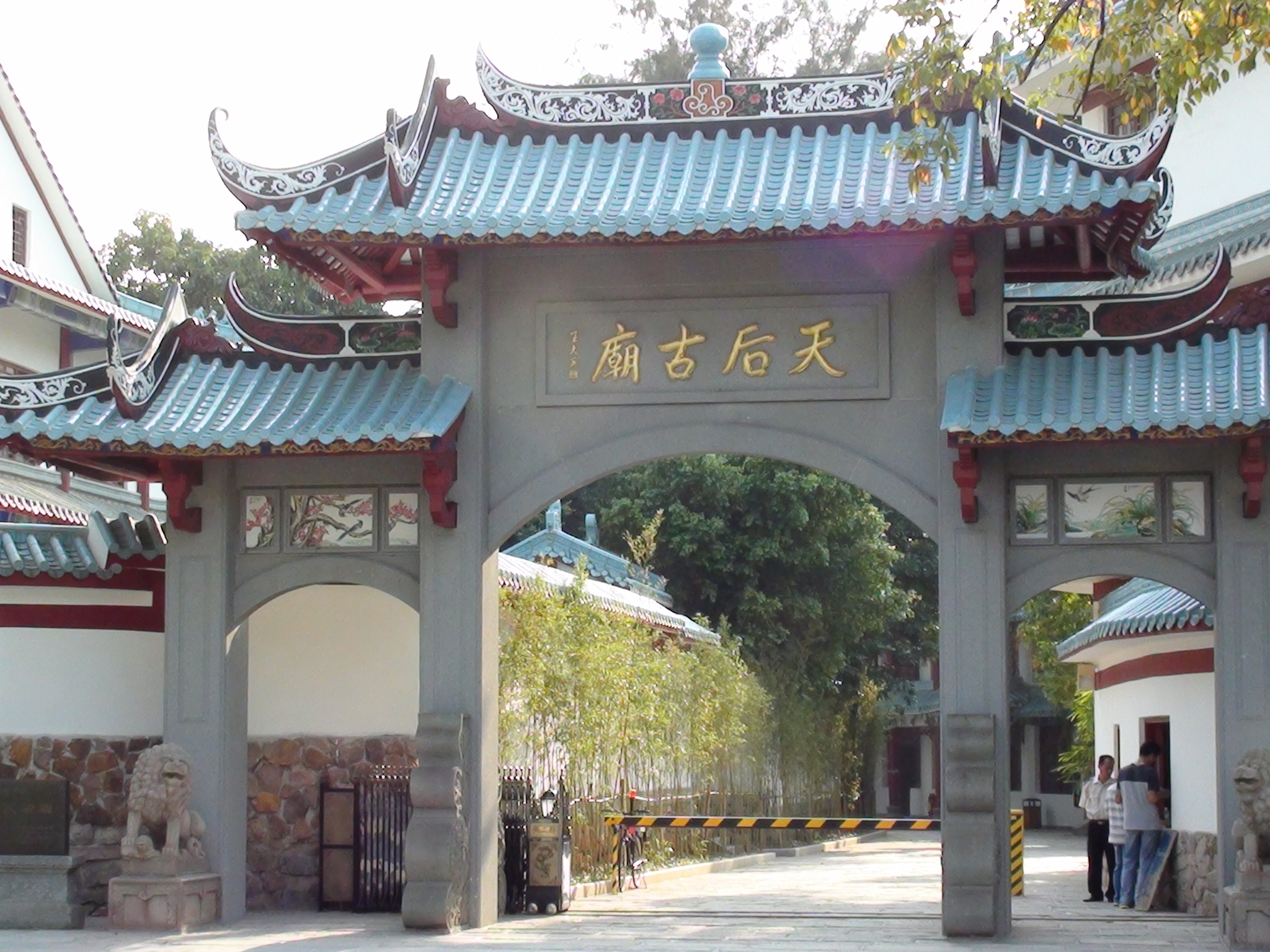 Queen Mother's Temple(1) in Shenzhen,China